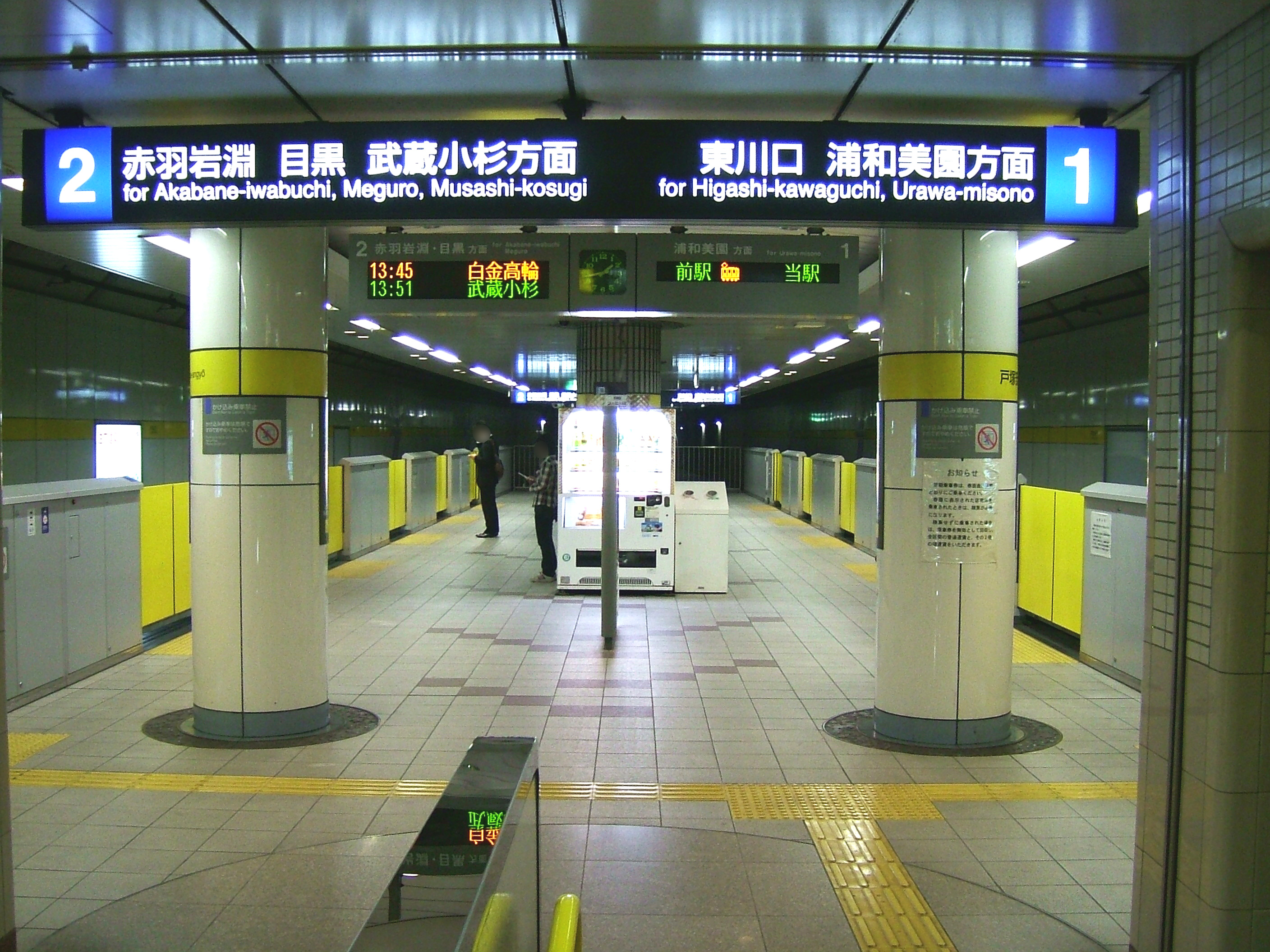 The platforms at Tozuka-angyo Station on the Saitama Rapid Railway Line